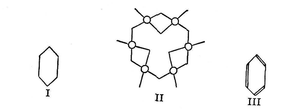 Benzene structures (bis) proposed by Kekulé